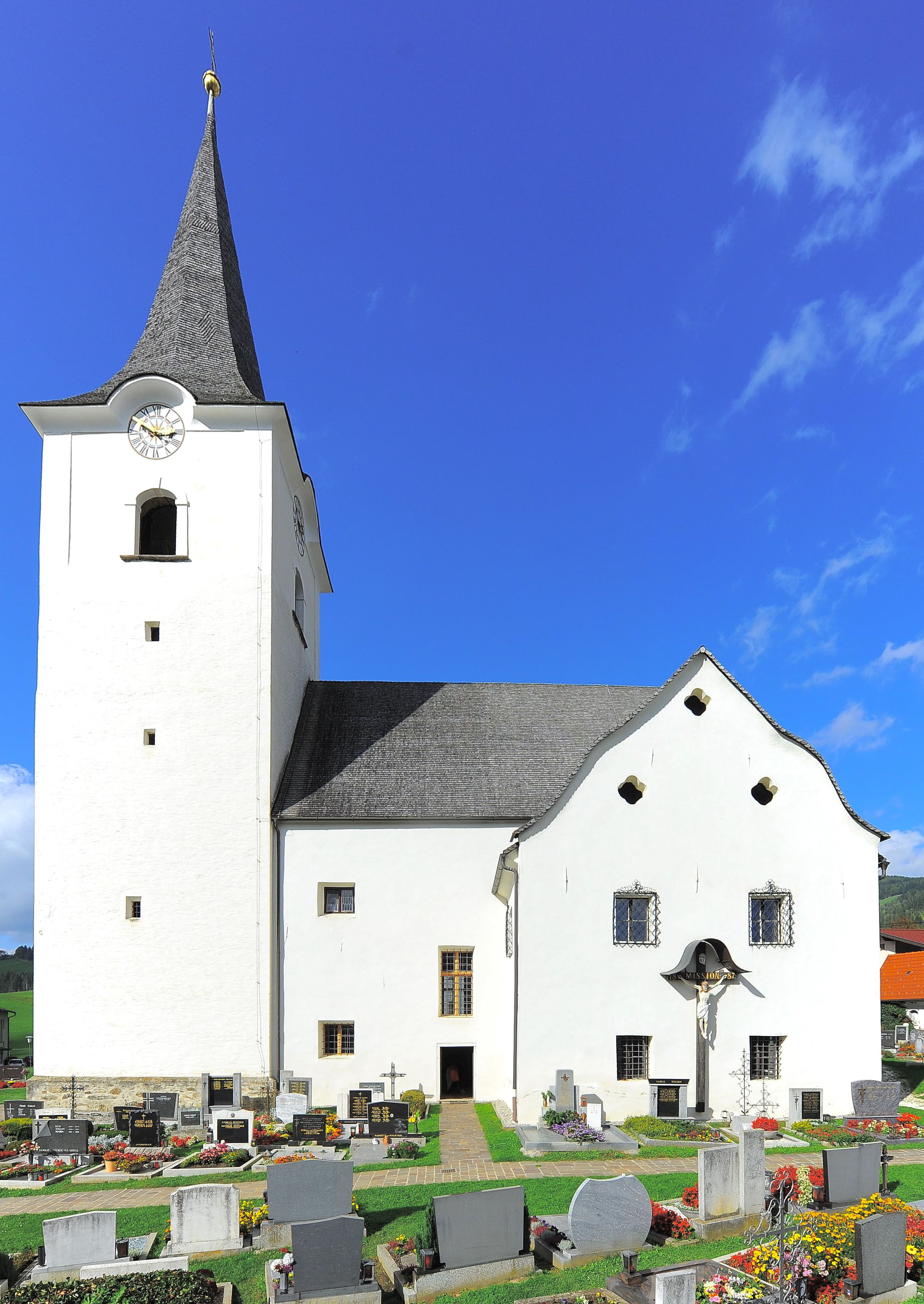 Parish church Saint Egidius at Schiefling, municipality Bad Sankt Leonhard, district Wolfsberg, Carinthia / Austria / EU